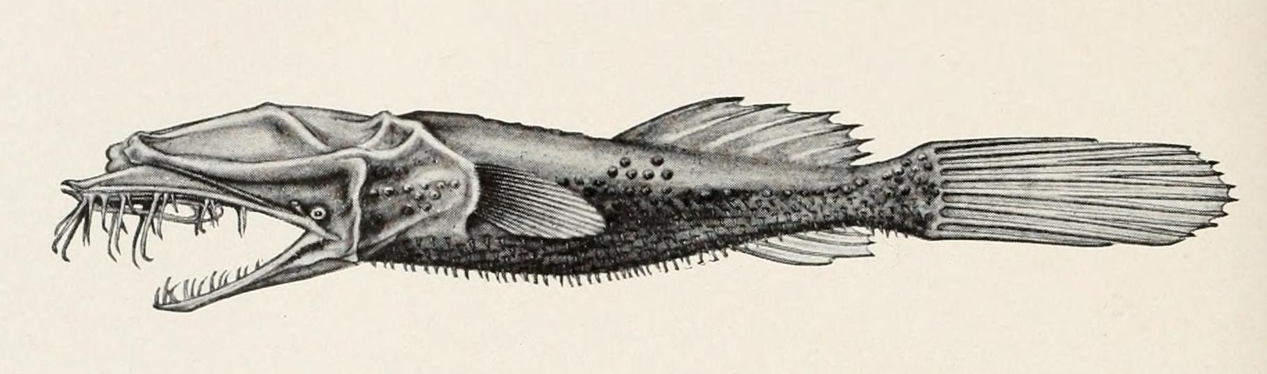 Thaumatichthys pagidostomus, holotype